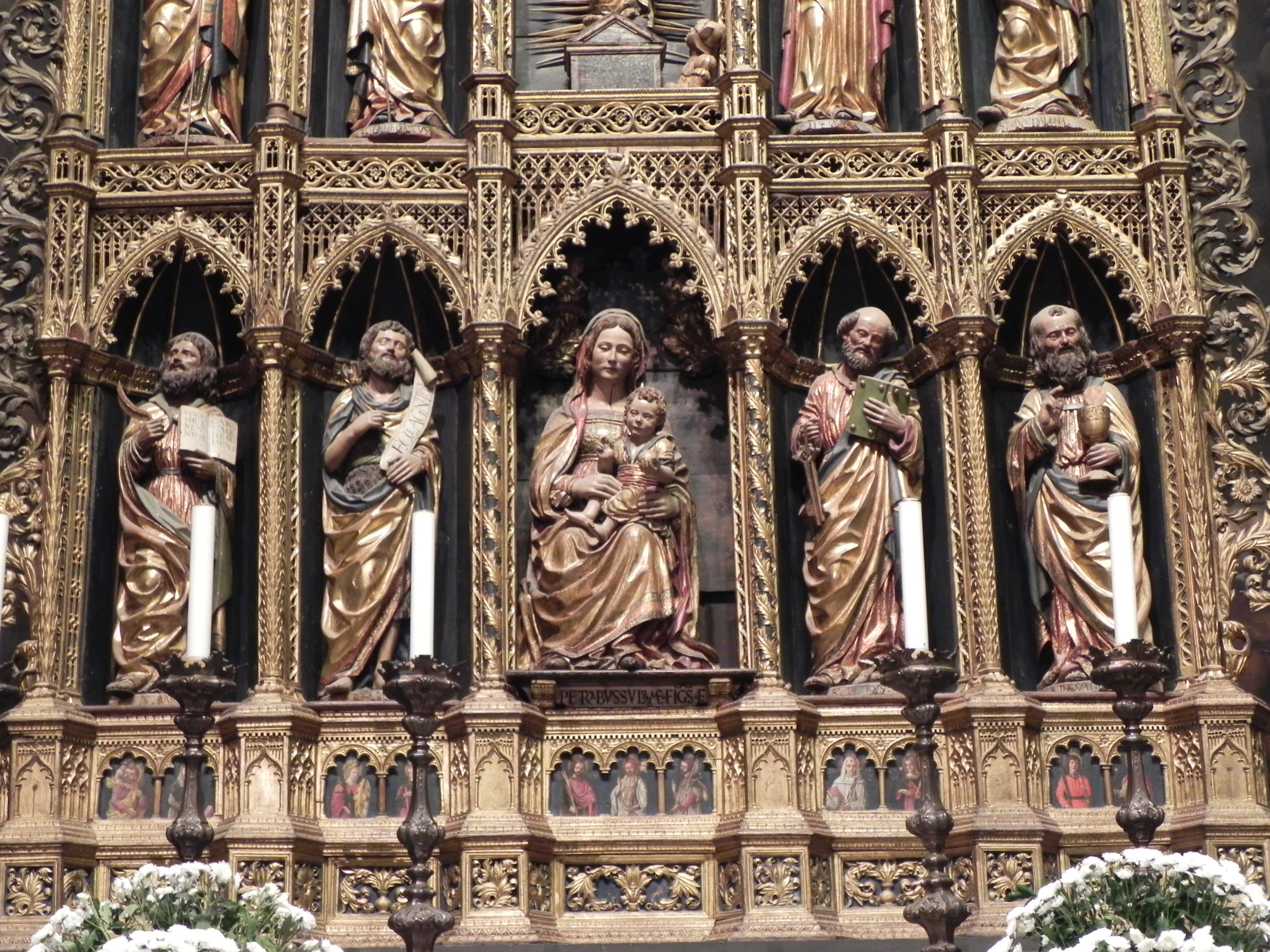 Salò (BS Italy) Cathedral Main Altar of the church (detail) Frame by Bartolomeo da Isola Dovarese Statues by Pietro Bussolo Polychrome and golded wood XVI century - 1500-1501